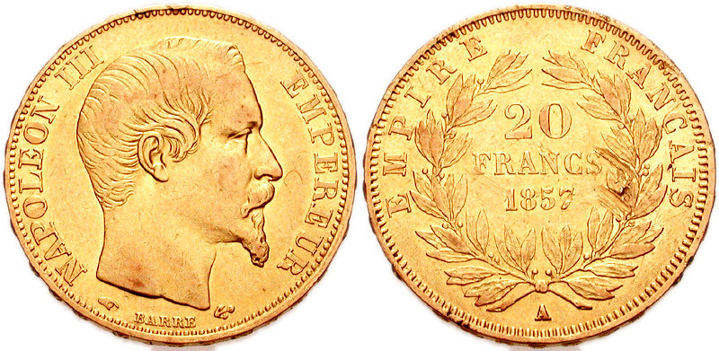 France. Second Empire. Napoleon III. 1852-1870. AV 20 Francs (22mm, 6.40 g) Paris mint. Dated 1857. Head right Denomination. KM 781.1. Good VF, scuff marks on reverse.